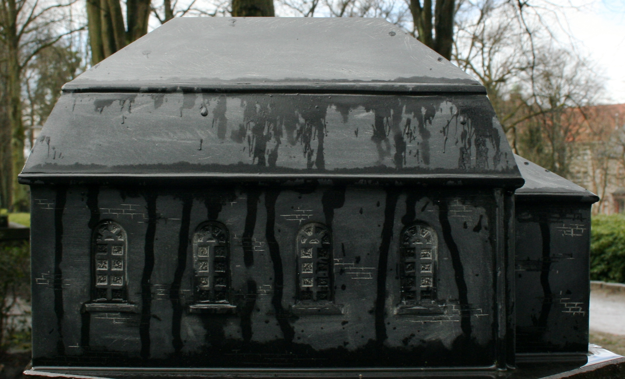 memorial of synagogue Aurich